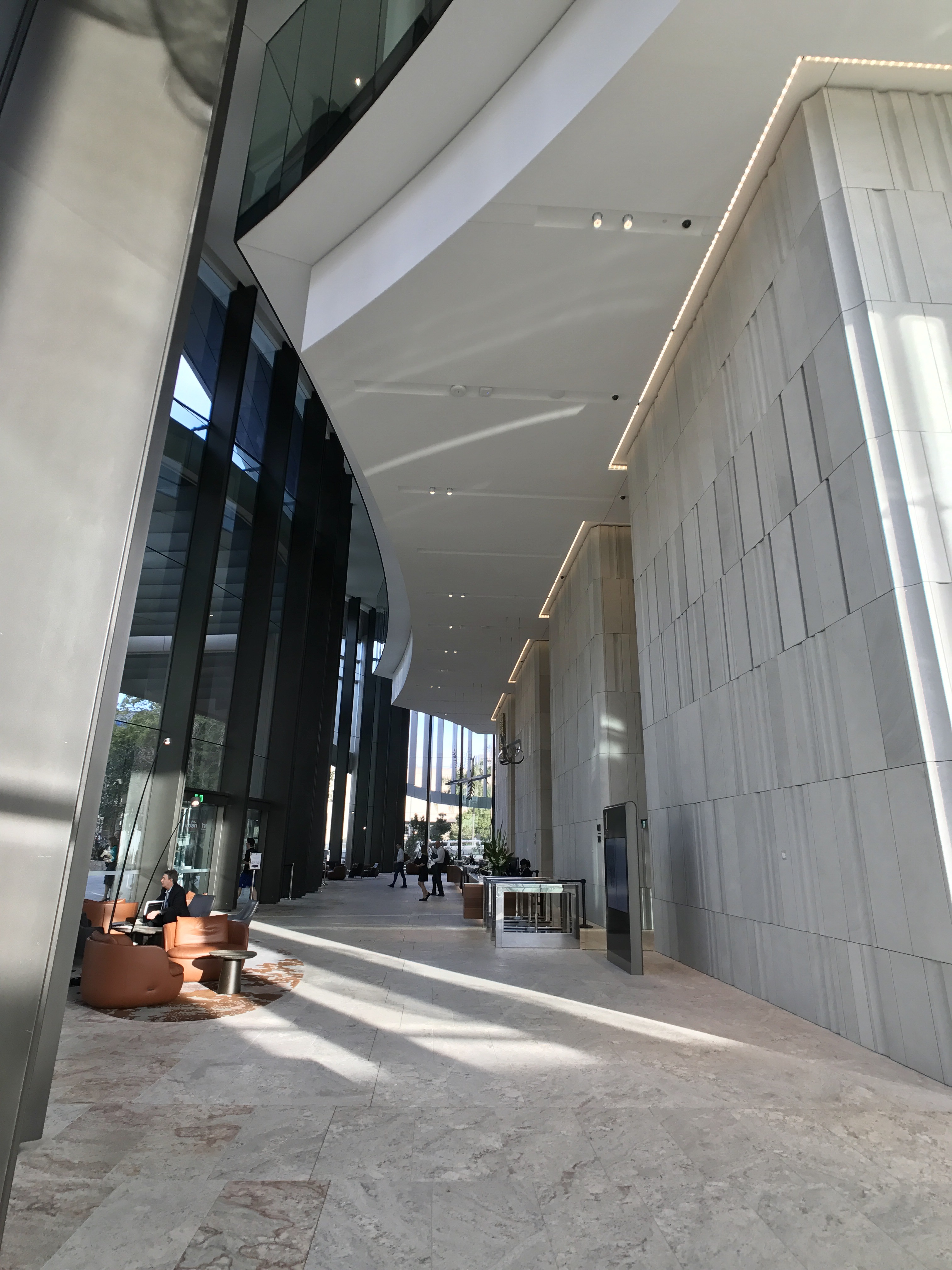 1 William Street, Brisbane main foyer